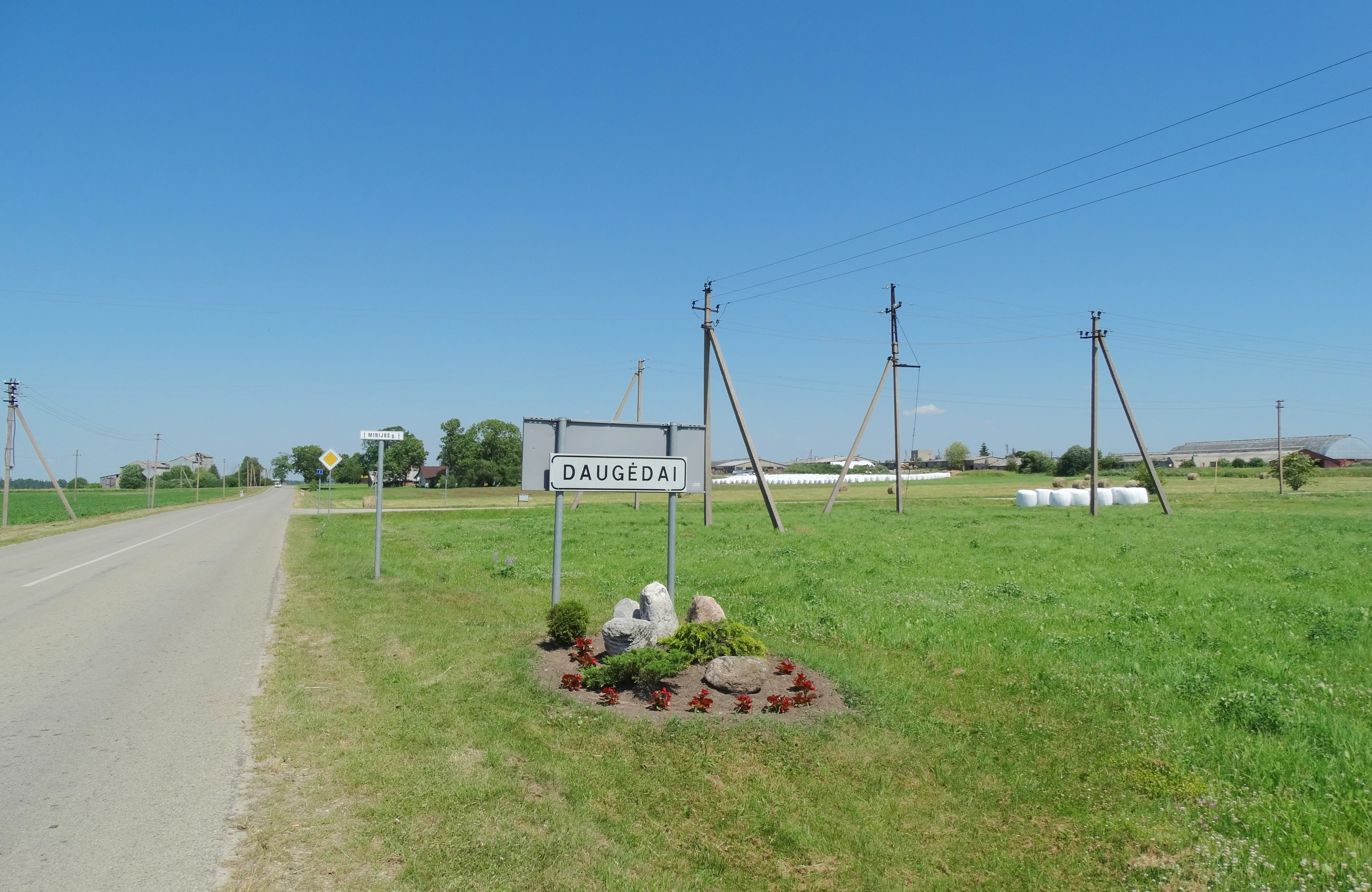 Daugėdai, Rietavas Municipality, Lithuania